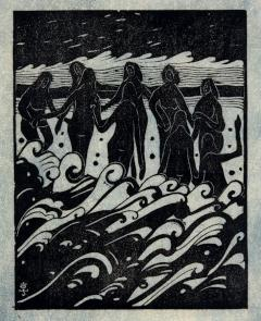 Woodblock print titled Joyous Fisherwomen